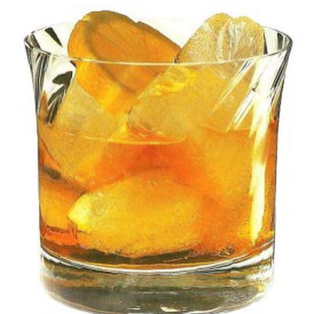 Rusty Nail a cocktail by @tokenchick13